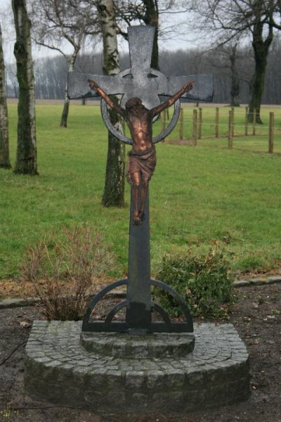 Cultural heritage monument No. 21 in Selfkant